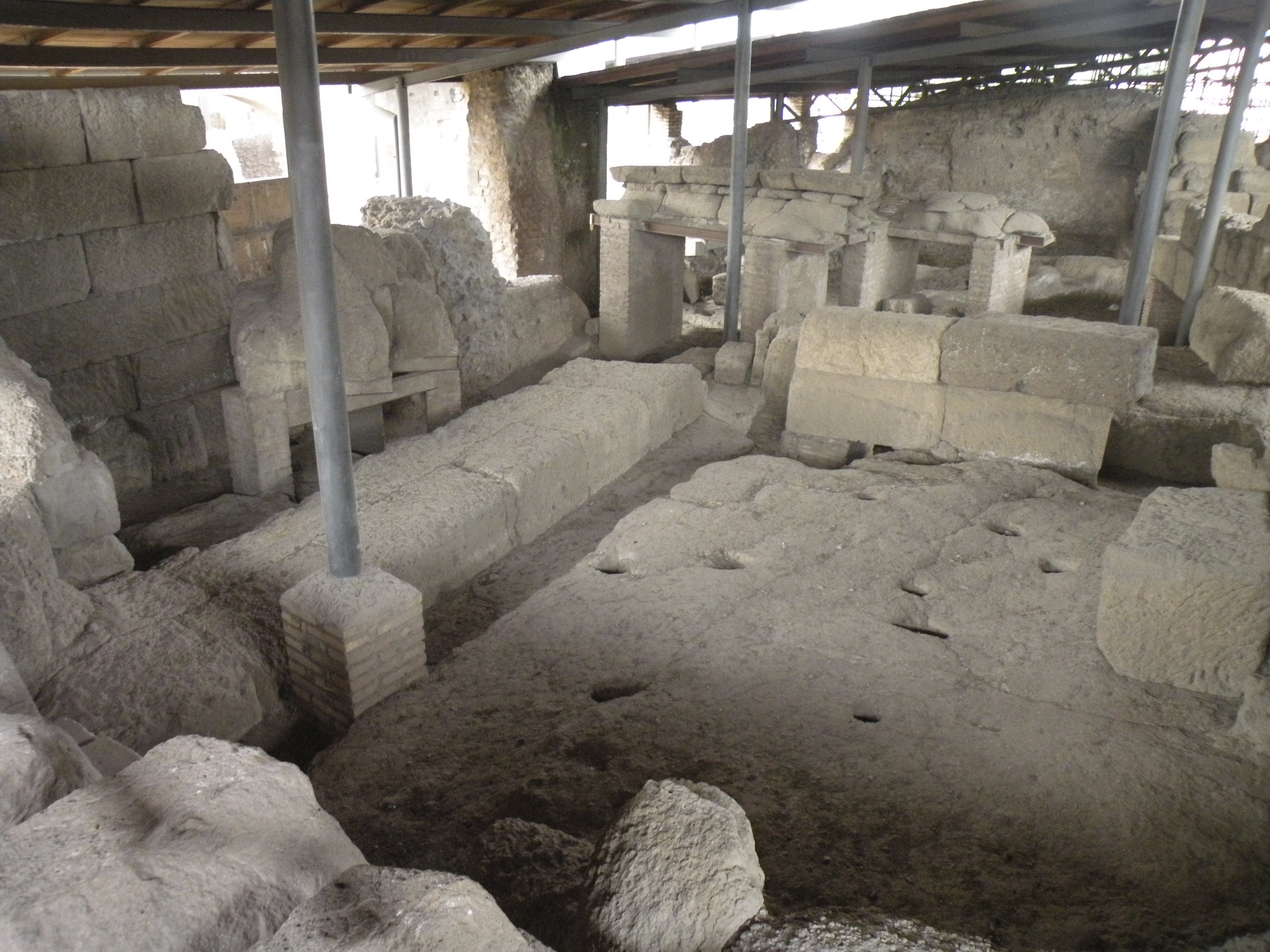 Palatine Hill.House of Romulus